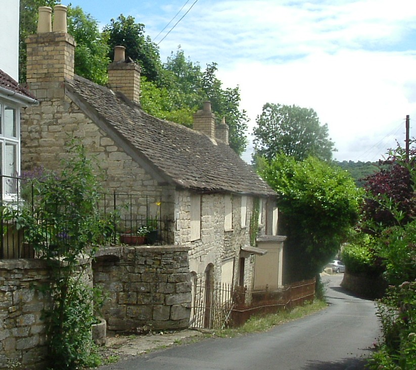 "Glendower" on Watledge Road, Nailsworth, Gloucestershire, England, the last home of Welsh poet William Henry Davies.